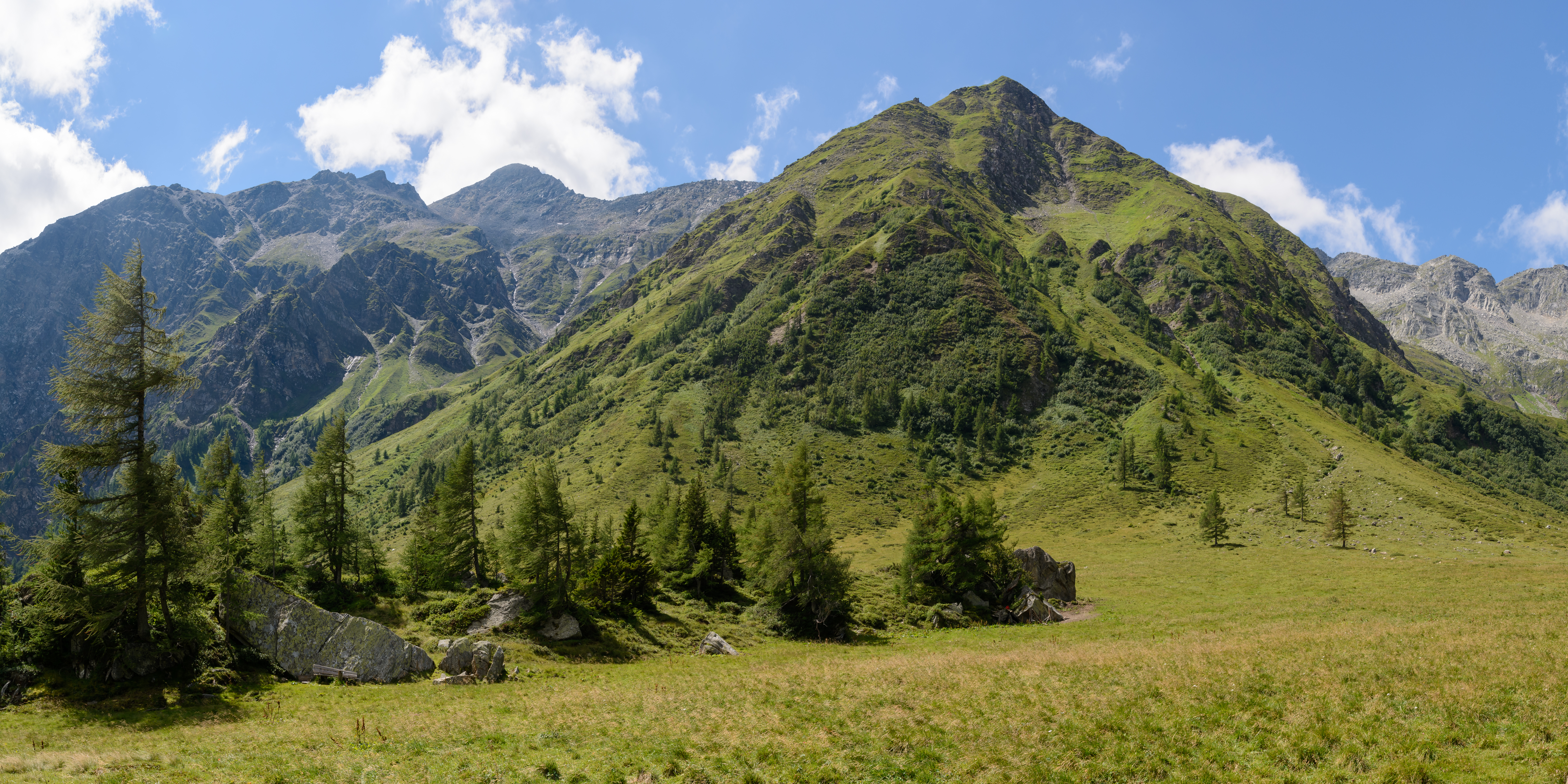 Zedelnig mountain (2,330 metres (7,640 ft)) and alpine pasture Jamnigalm in the Tauern Valley near Mallnitz, High Tauern National Park, Carinthia, Austria